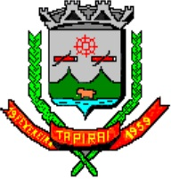 coat of arms of the city of Tapiraí, São Paulo State, Brazil